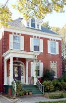 The City of Norfolk (Virginia). A residential house in the Ghent neighborhood of Norfolk.